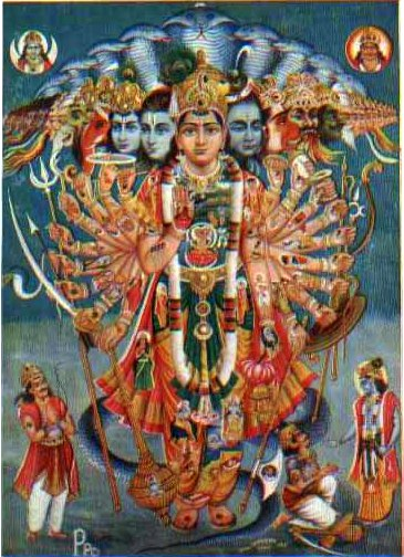 A Vishva-rupa print, Bombay, earlier 1900's Source: ebay, June 2002